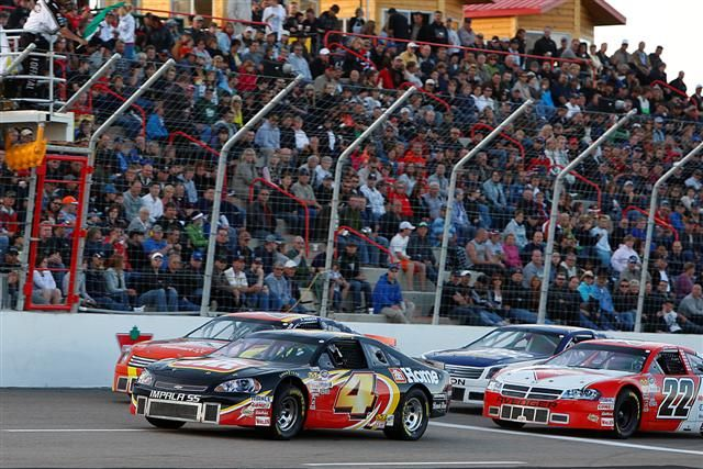 Start of the 2009 NASCAR Candian Tire Series Velocity Praire Thunder at Auto Clearing Motor Speedway.